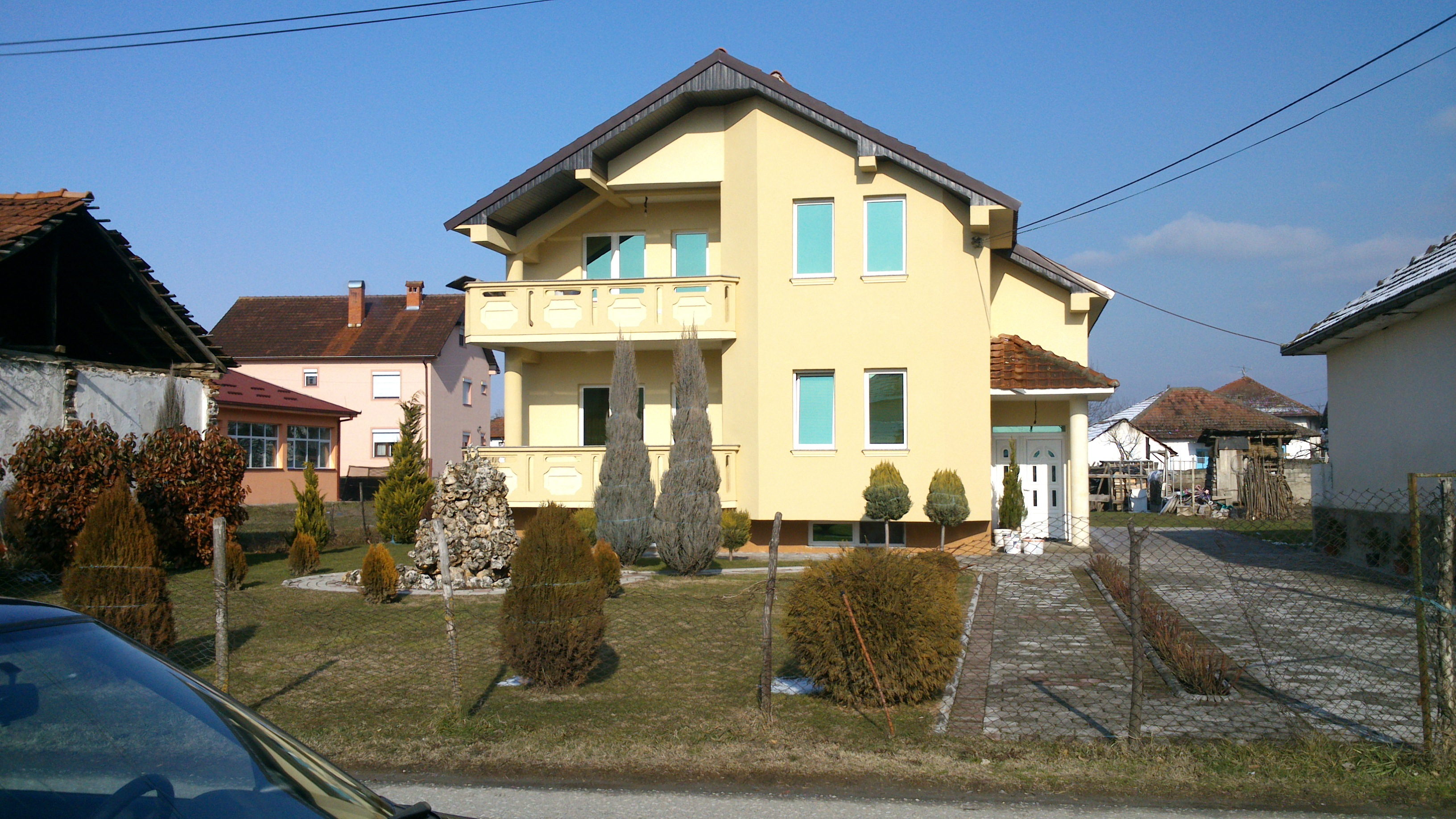 House in Sarakino, Macedonia